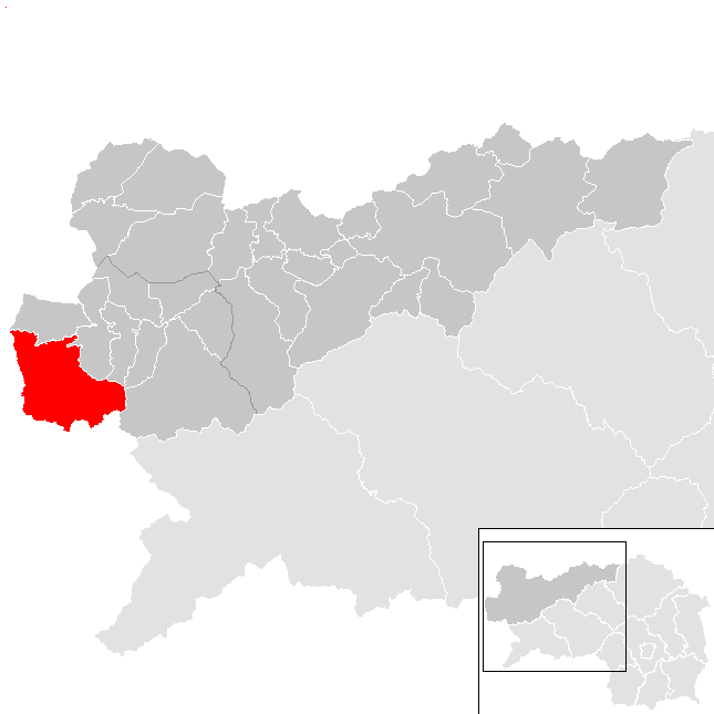 District Leoben